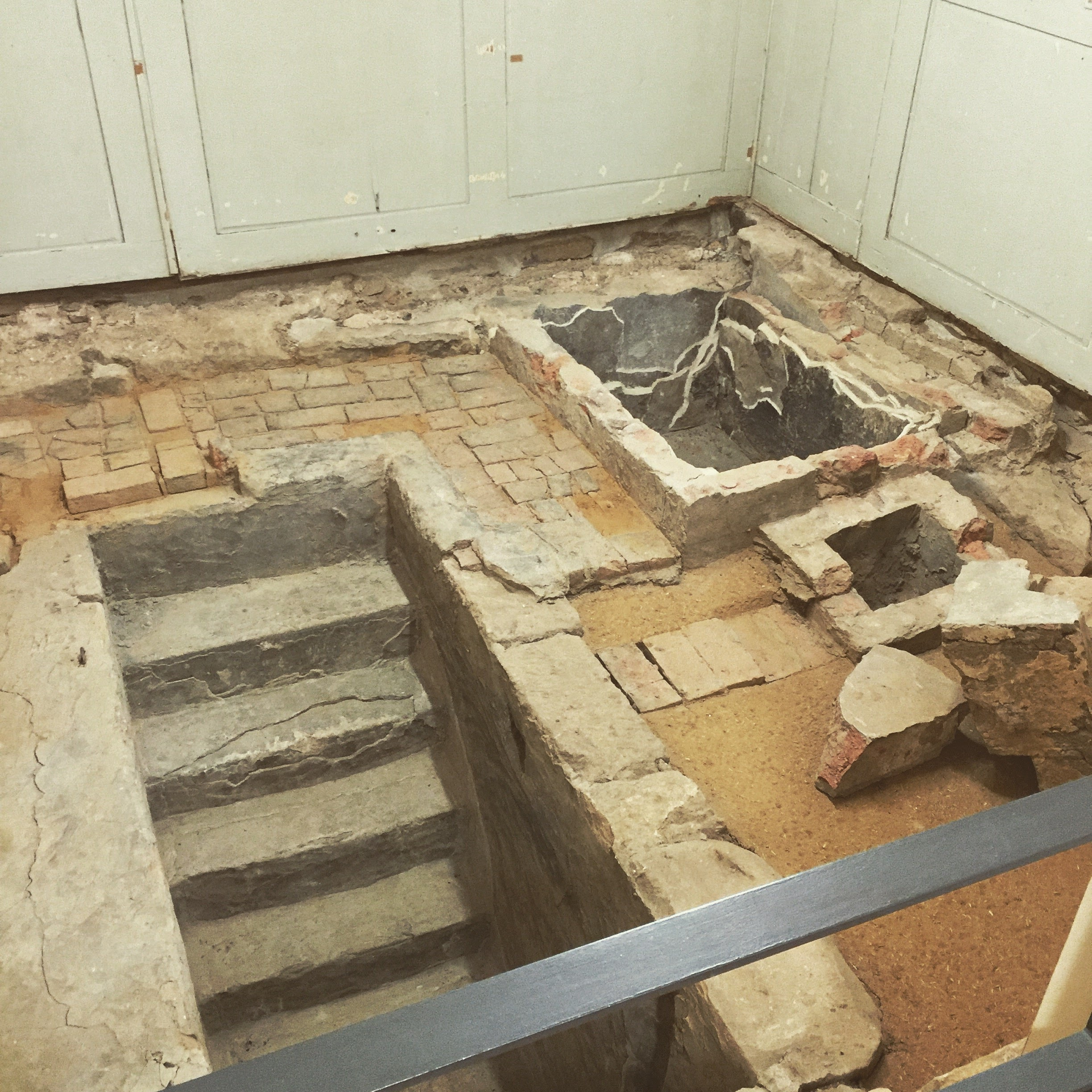 Mikve of Heubach